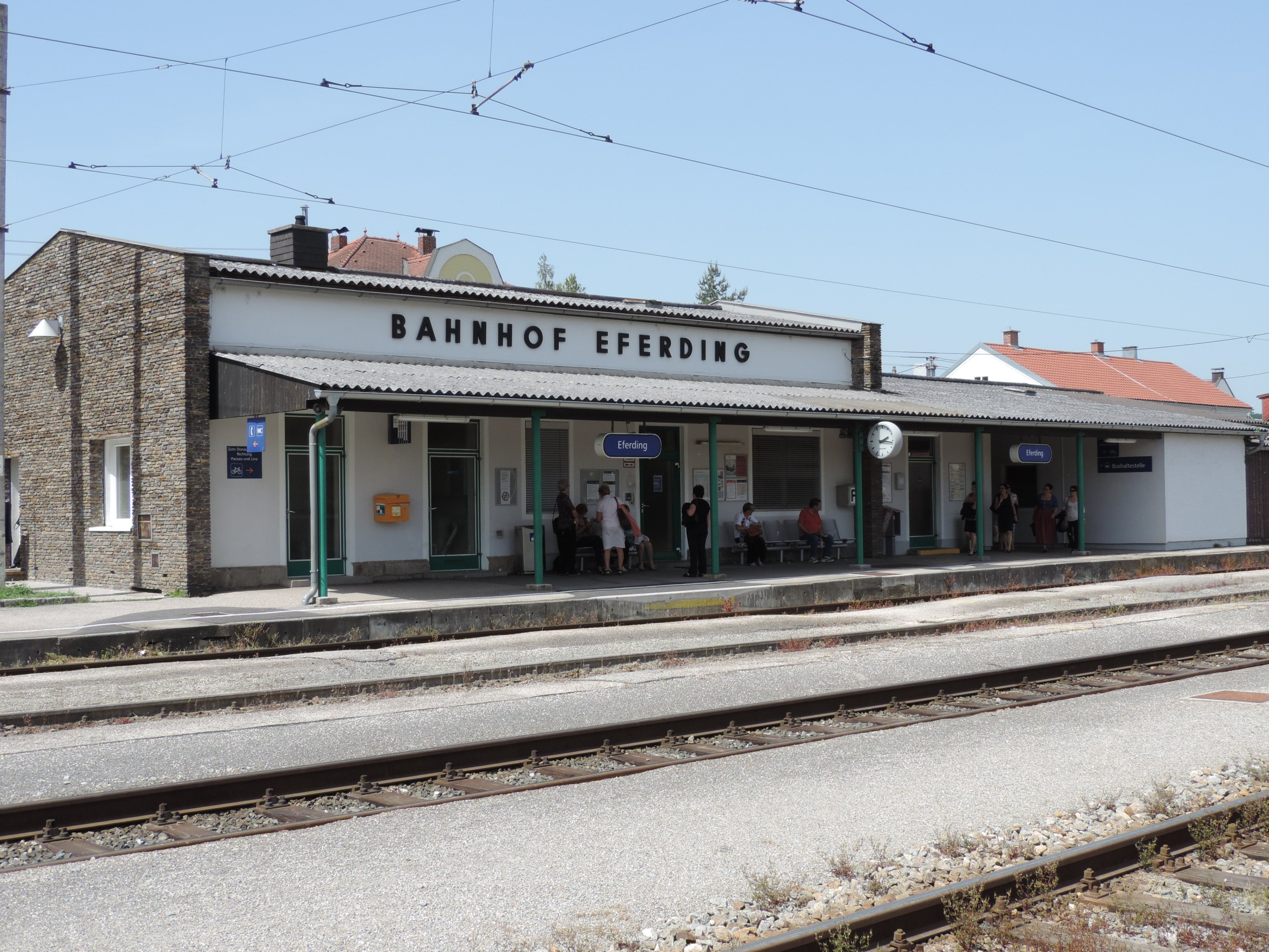 train station Eferding in Upper Austria